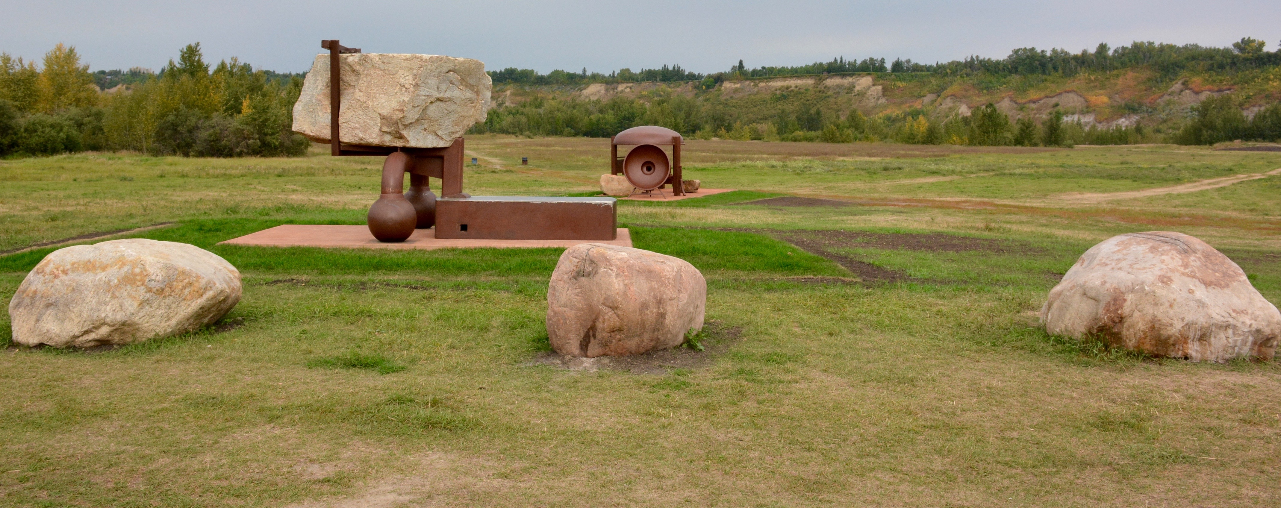 Sculpture by Royden Mills at Terwillegar Park, Edmonton Alberta Canada